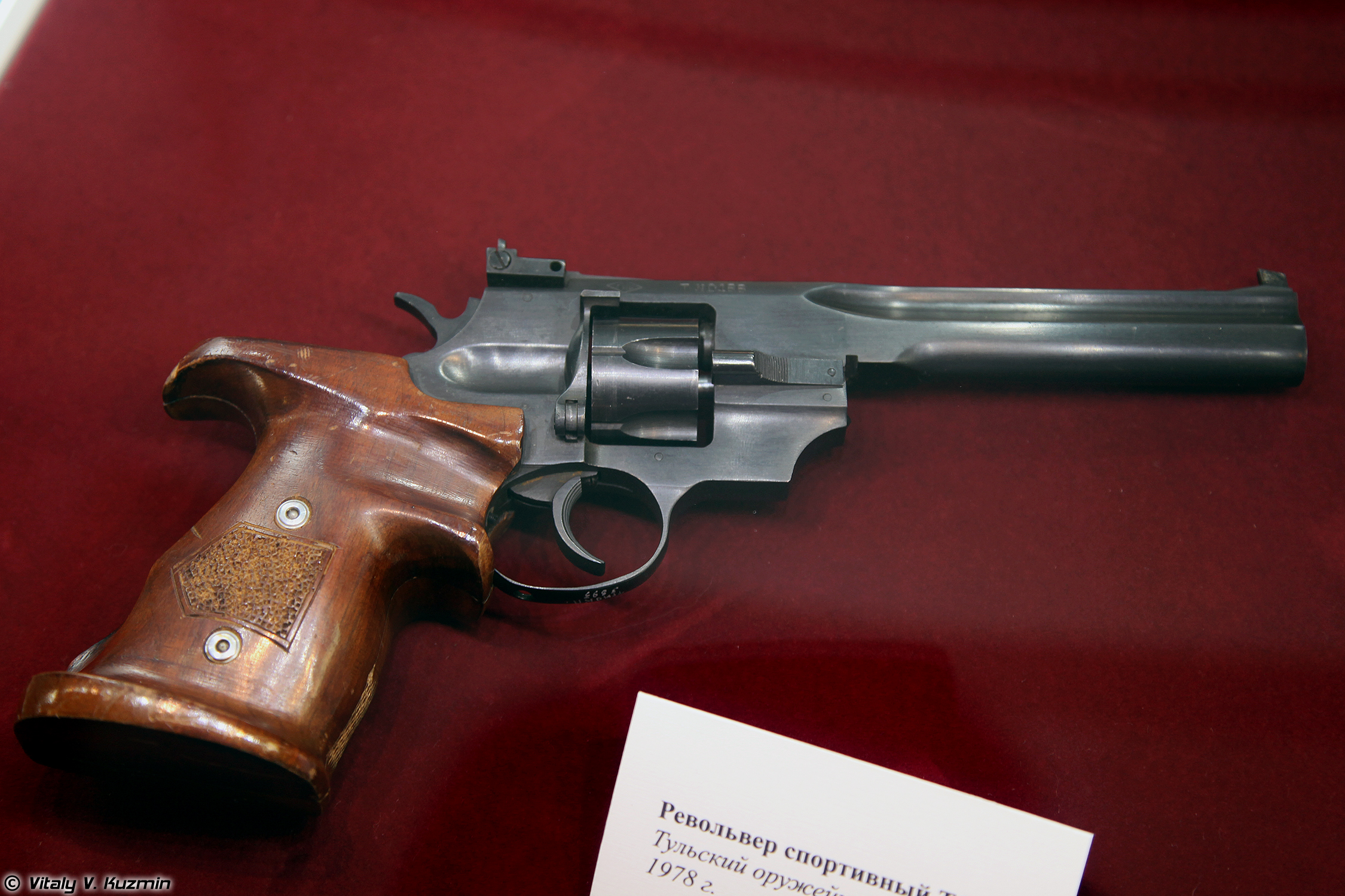 TOZ-49 sport revolver